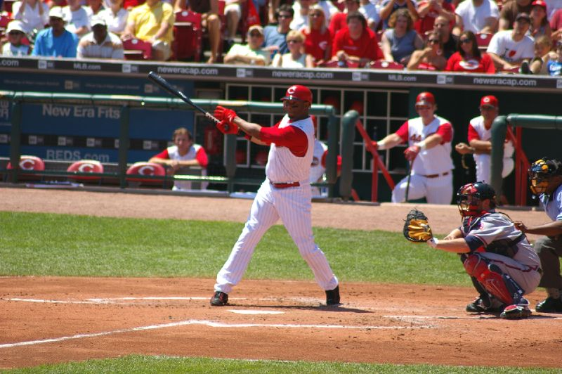 Ken hitting a large fly ball for a double in the 8th inning.